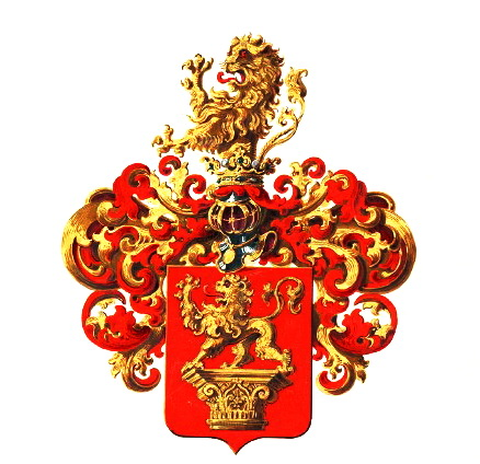 Coat of arms of the family Anderson